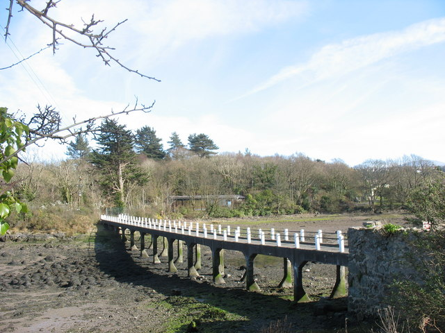 The main causeway to Ynys Gaint I spent many a weekend on Ynys Gaint when it was a base for the Royal Corps of Transport (Amphibious) [Wales]and used as a WTC for other units involved in mountain and water activities training. In those pre-breathalyser days it needed skill and a lot of luck to manoeuvre a long wheel base Land Rover back across the causeway after closing time on Saturday. Though the hutments are still on the island, and a parliamentary answer of 2002 lists Ynys Gaint as one of the MOD's bases on Anglesey, the only sign at the roadway end of the causeway nowadays is a 'Private. No Entry" sign.